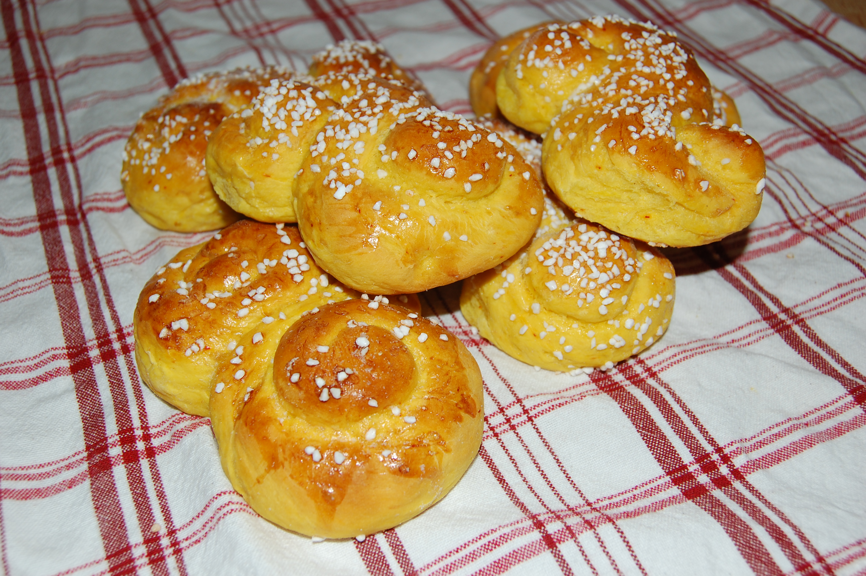 Lussekatter with pearl sugar